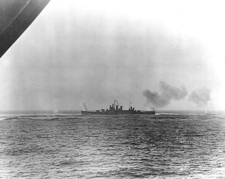 The U.S. Navy heavy cruiser USS Wichita (CA-45) engaging the French battleship Jean Bart, off Casablanca, Morocco, on 8 November 1942. Note the shell splashes off Wichita's bow.